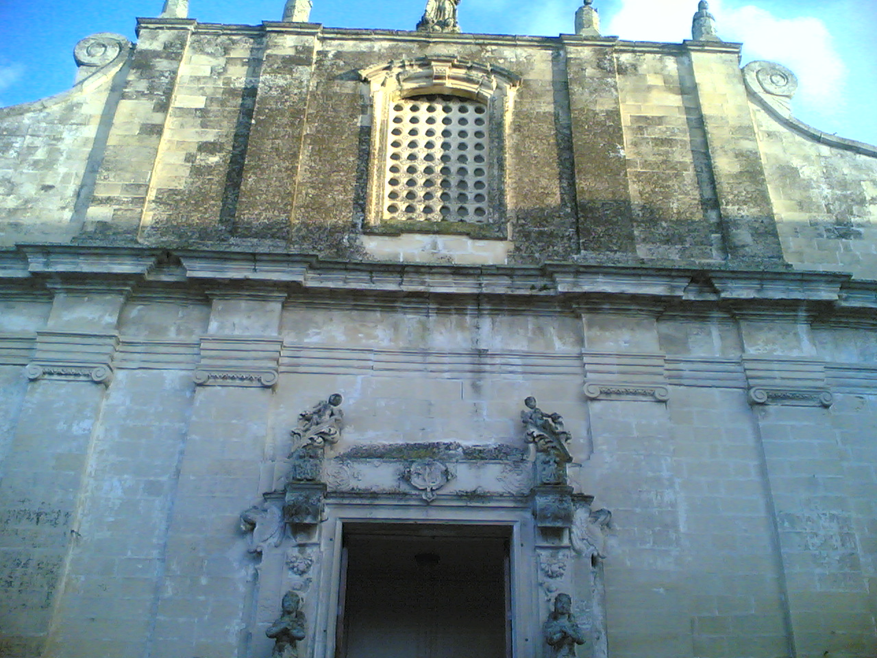 Carpignano Salentino's church, Province of Lecce, Italy